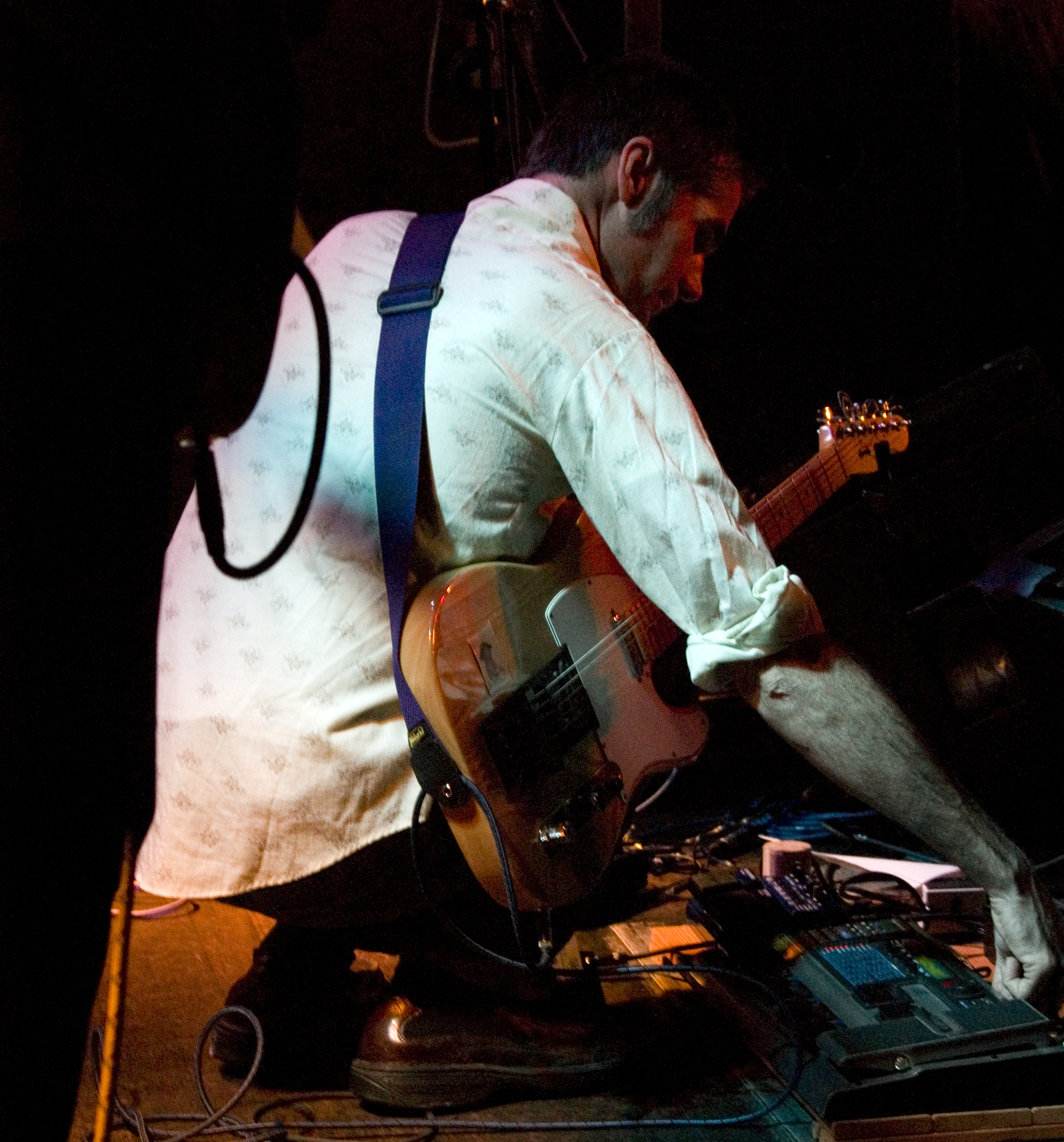 Fergus Morrin